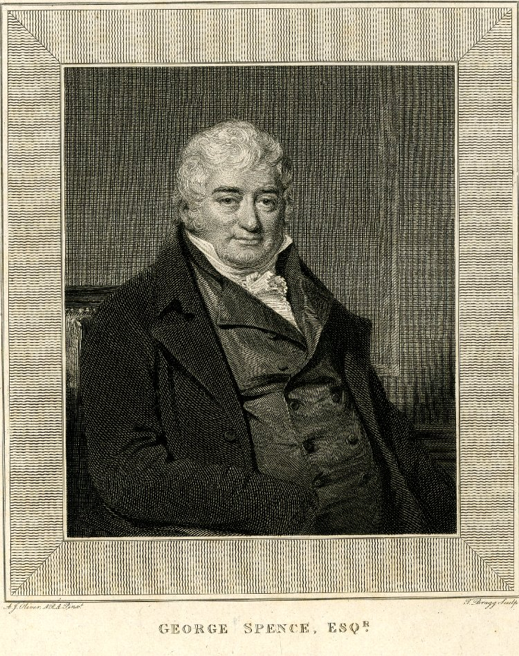 Portrait of George Spence (1787–1850), English barrister and politician.